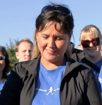 Leona Aglukkaq, Canadian MP for Nunavut, Canadian Health Minister, cutting the ribbon at the Terry Fox Run in Ottawa